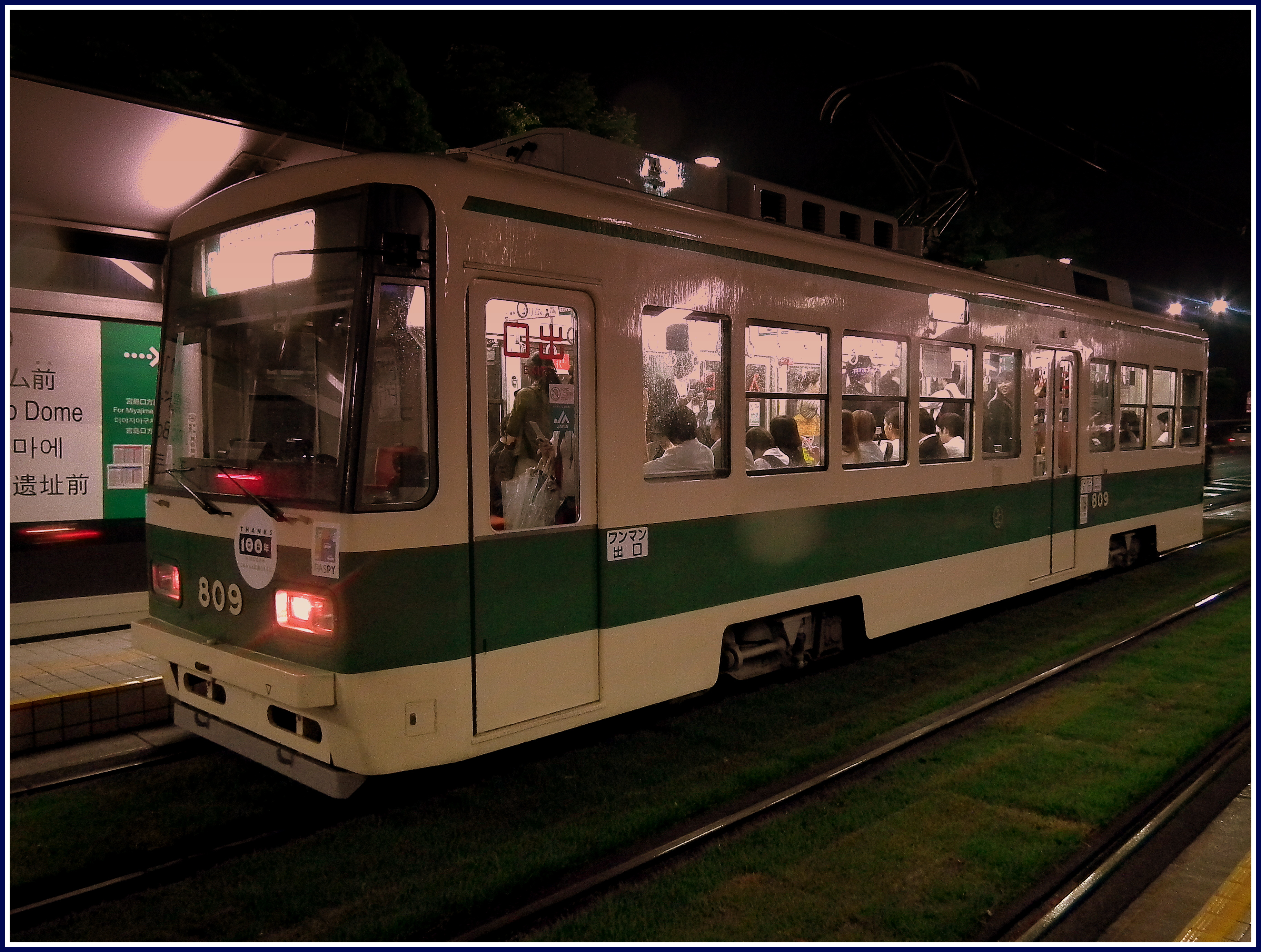 HIROSHIMA STREET CAR NO 2 AT THE ATOMIC BOMB DOME STOP M10 ENROUTE TO HIROSHIMA STATION JAPAN JUNE 2012